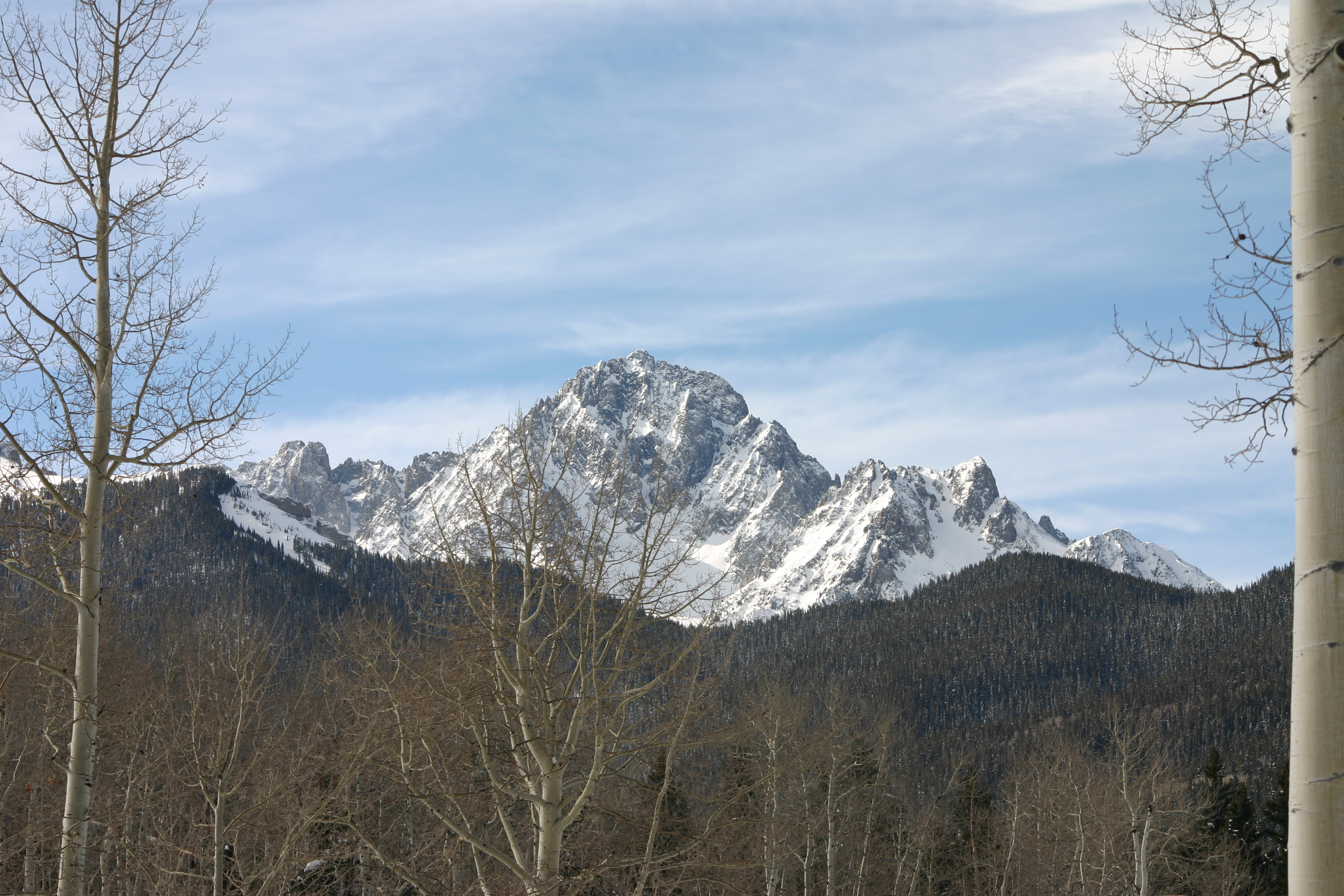 Mount Sneffels in Colorado.IMG_7071